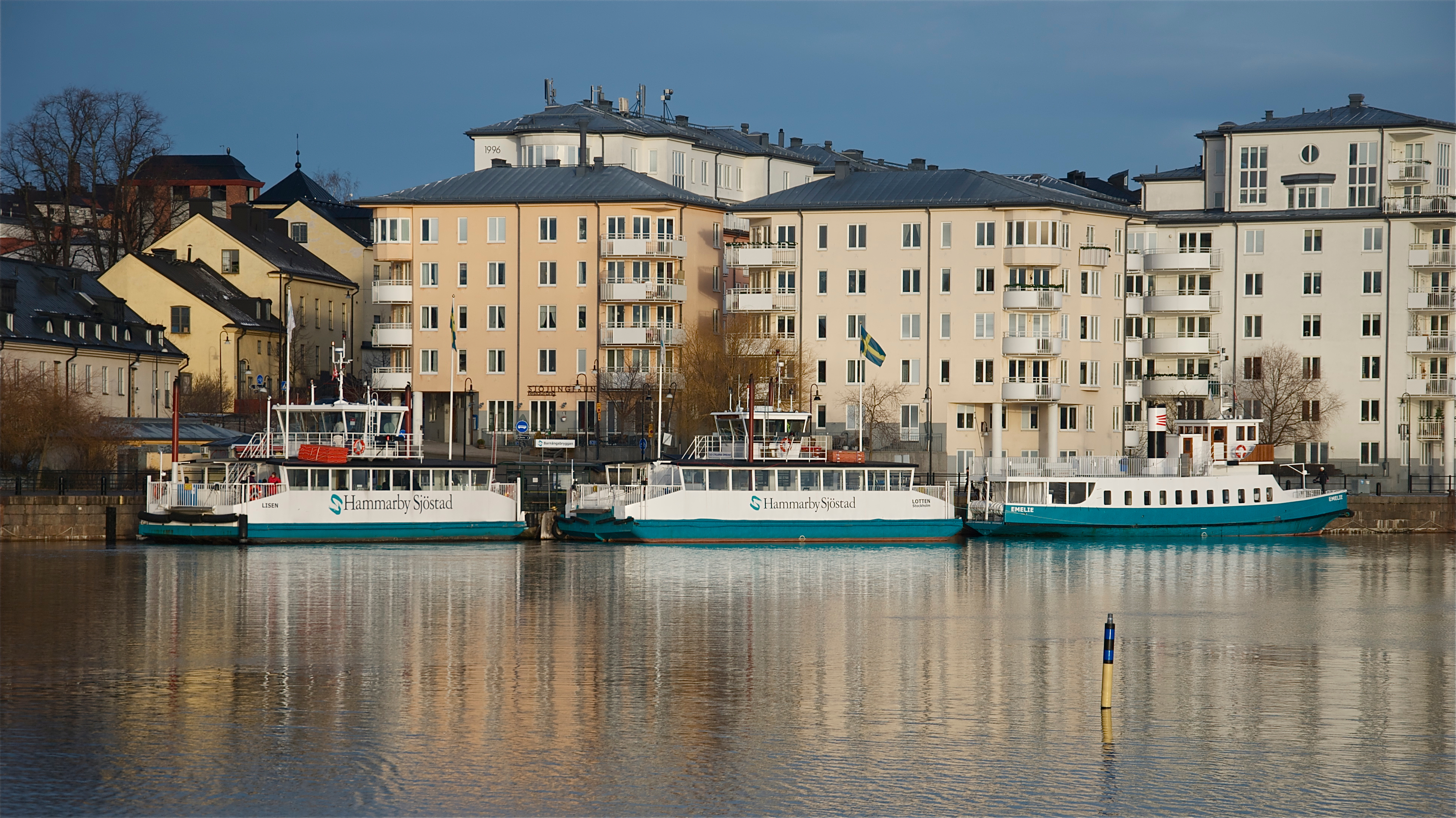 Three ferries at Barnhusbryggan, Södermalm (Stockholm).